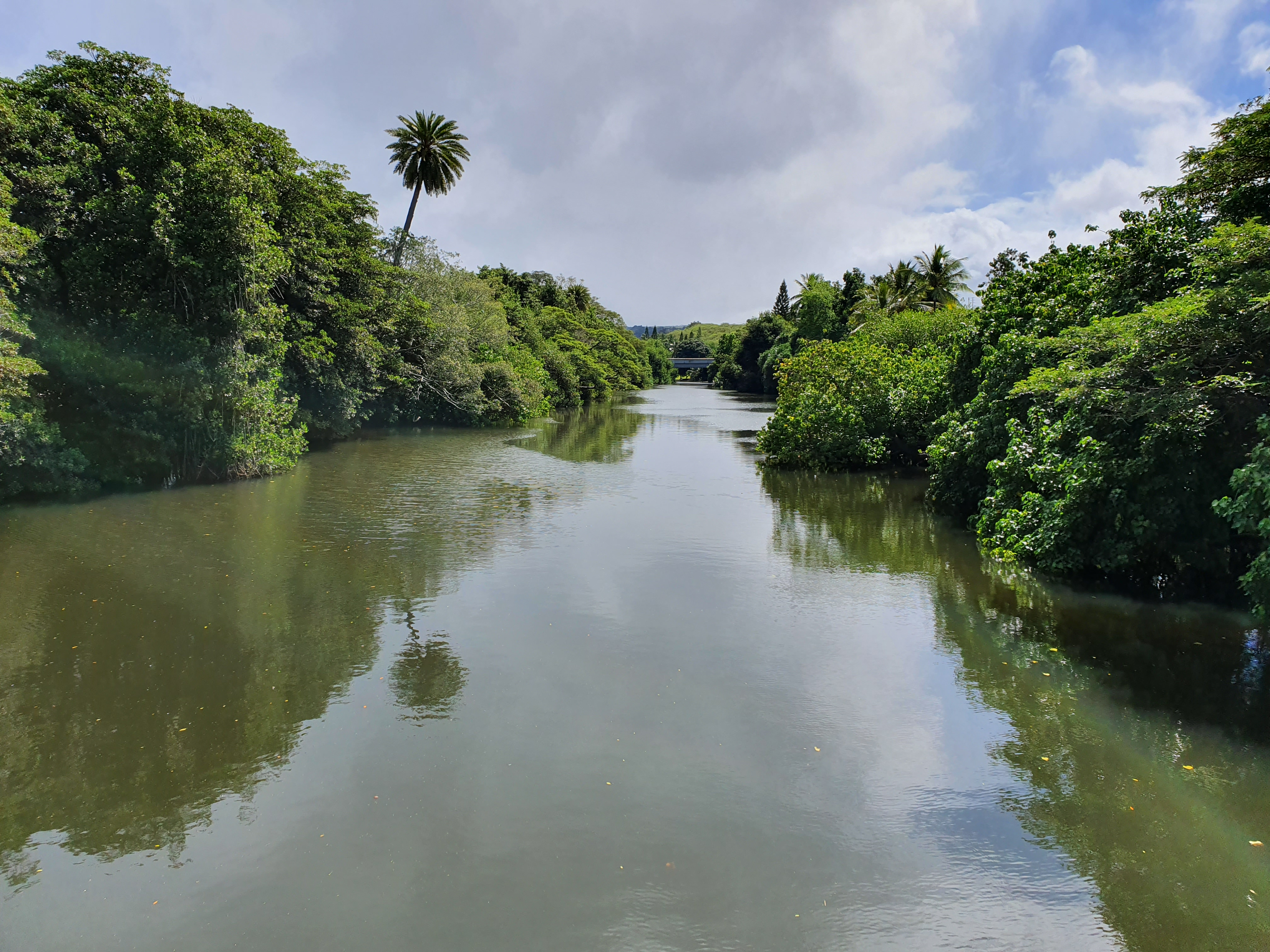 river